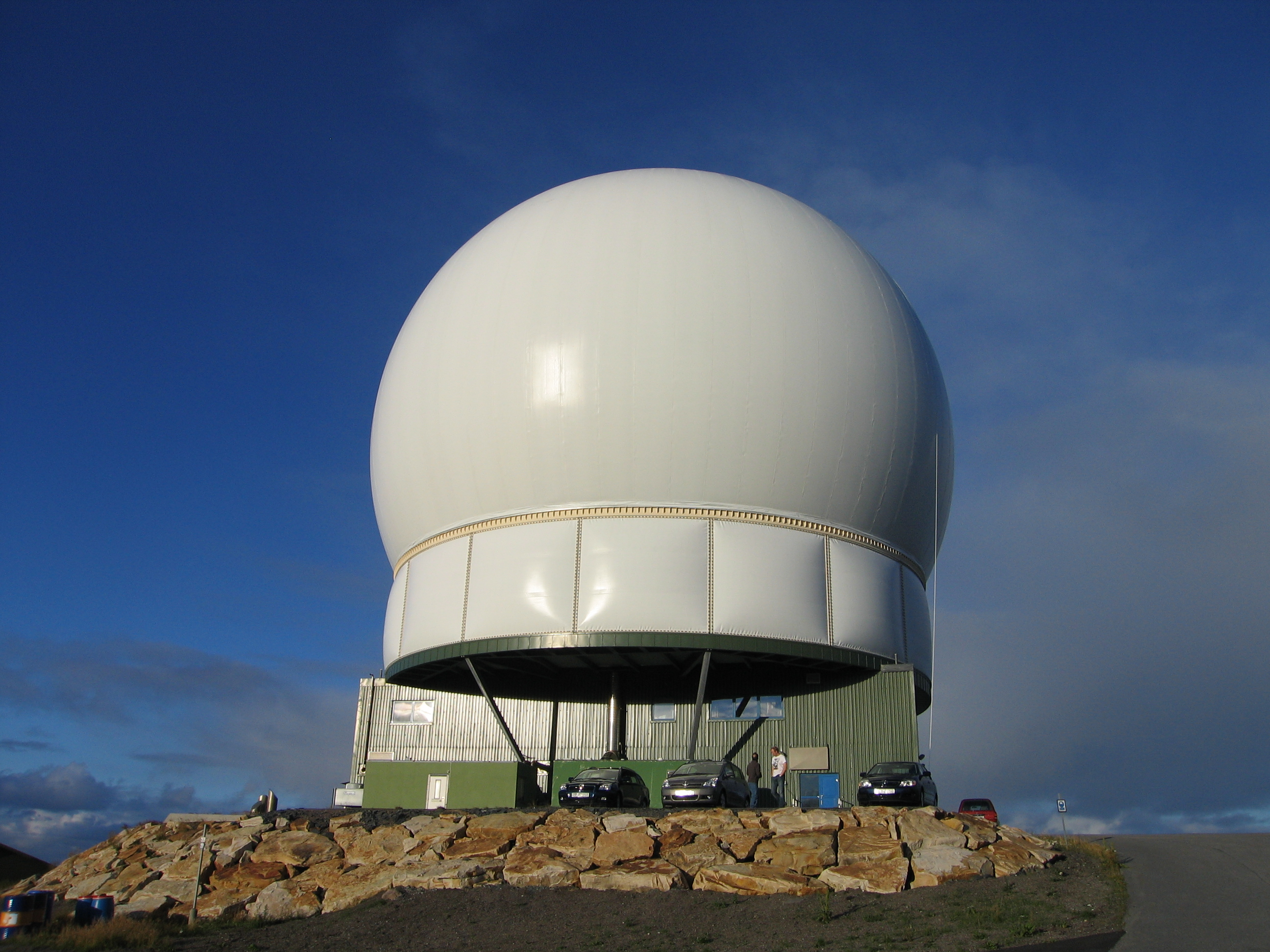 From the caption: "GLOBUS II is pictured above. GLOBUS II a radar system located at Vardo, Norway, that is operated solely by Norwegian personnel, but which was developed by the United States and serves as part of the 29-sensor, global space surveillance network that provides data to the US Strategic Command. Engineers from AFRL/RX recently made a trip to Norway to perform thermography inspections on the radar cover. "